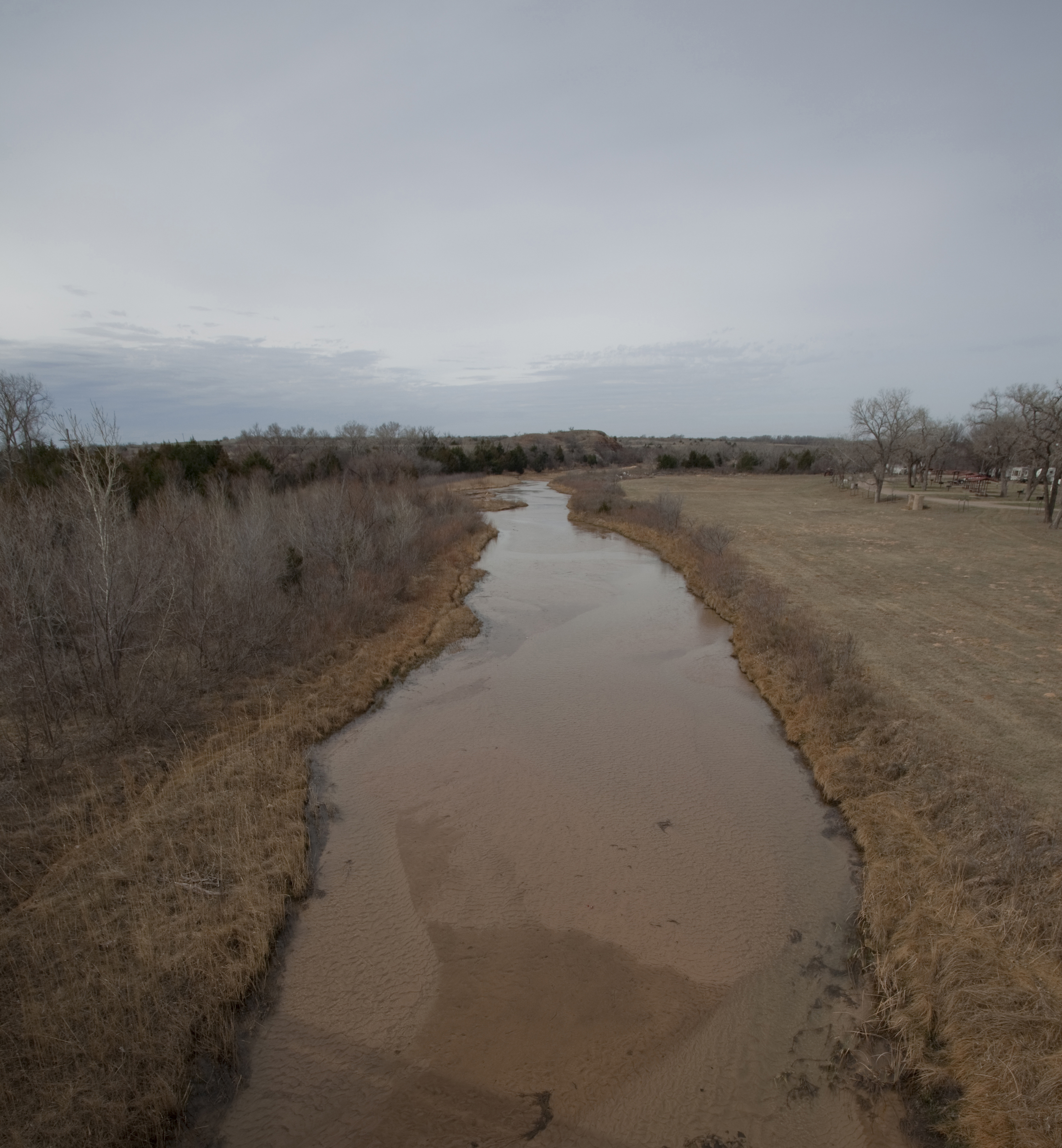 Salt Fork Red River near Pioneer's Park, Collingsworth County, Texas.